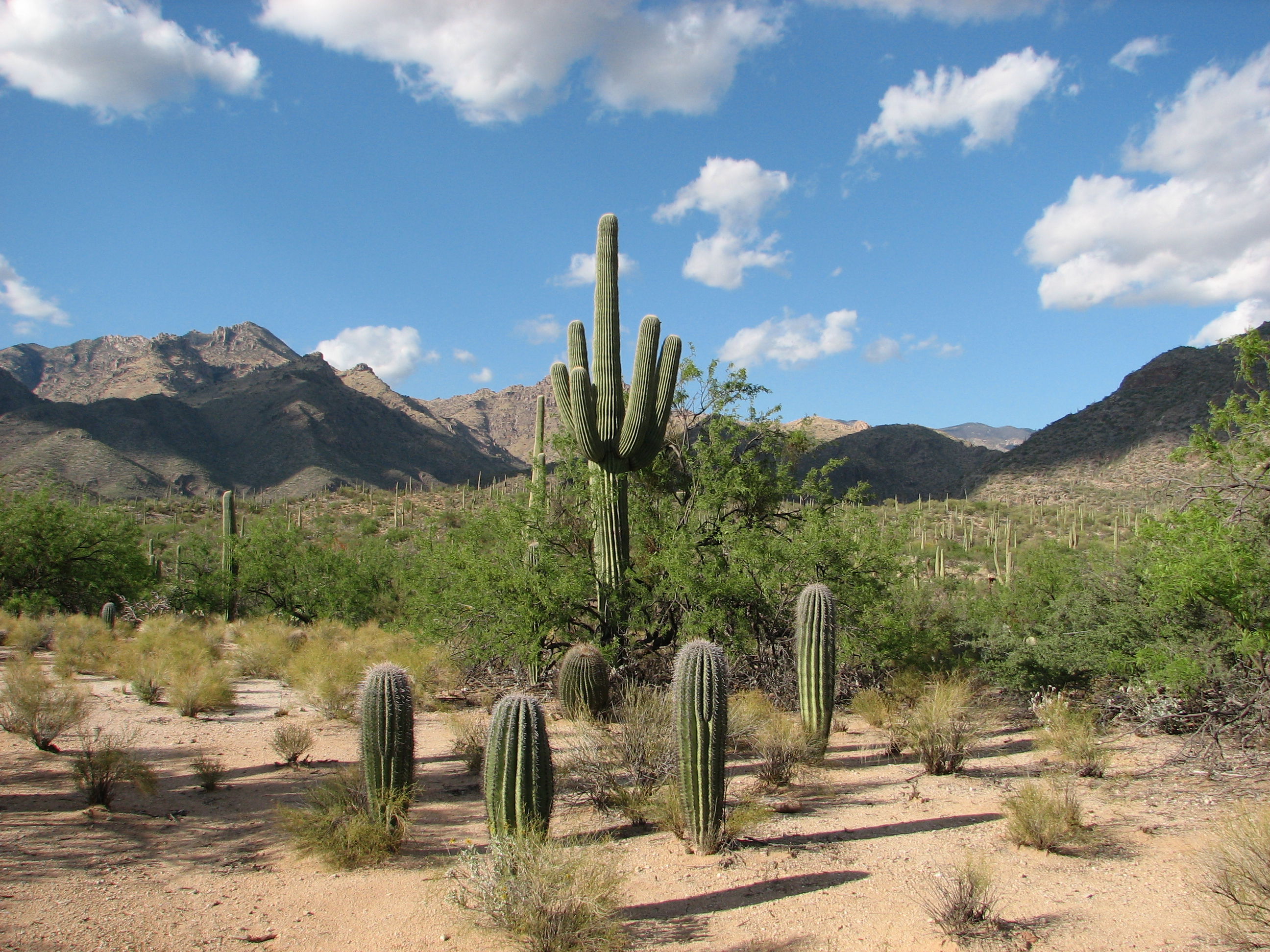 Picture of Saguaro cactus, other cacti and Santa Catalina mountains along Bear Canyon Trail in the Sabino Canyon Recreation Area, near Tucson, Arizona.